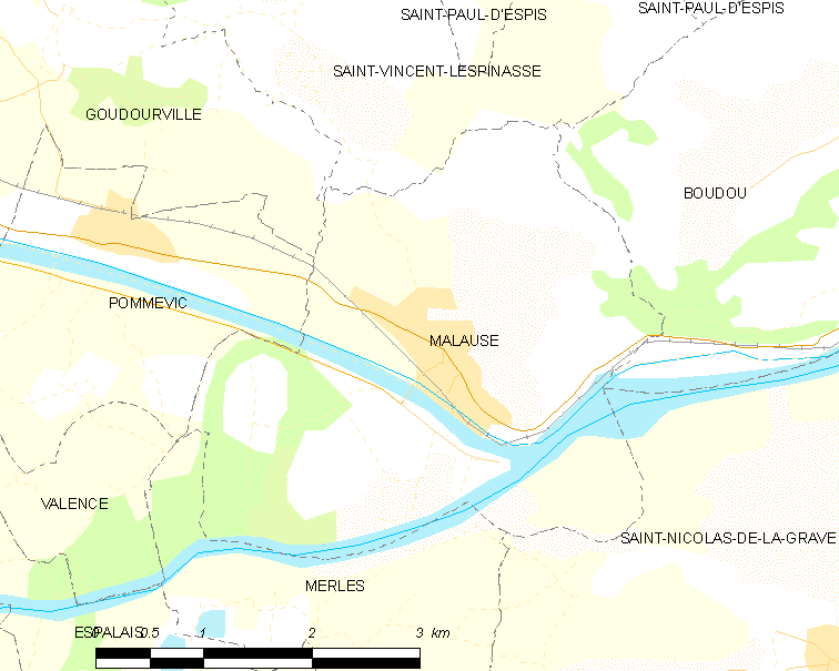 Map of French municipality Malause